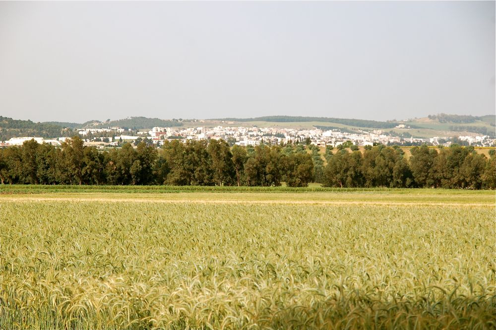 Looking across wheat fields and eucalyptus windbreak to the town of Beja in Tunisia